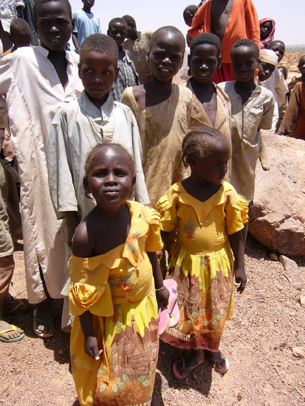 Children at a refugee camp in Chad